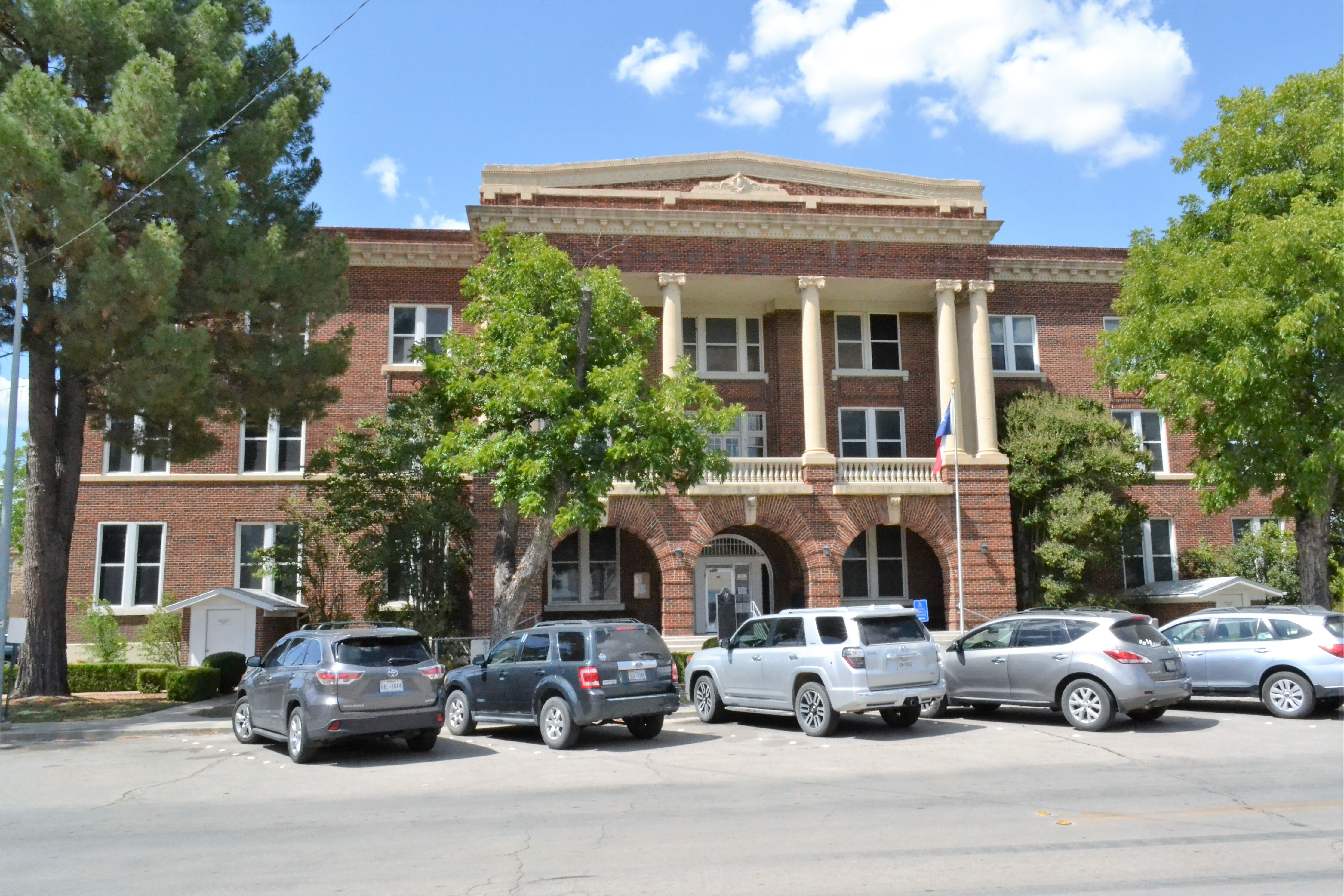 The Brown County Courthouse in Brownwood, Texas. Texas Historic Sites Atlas #4302000209